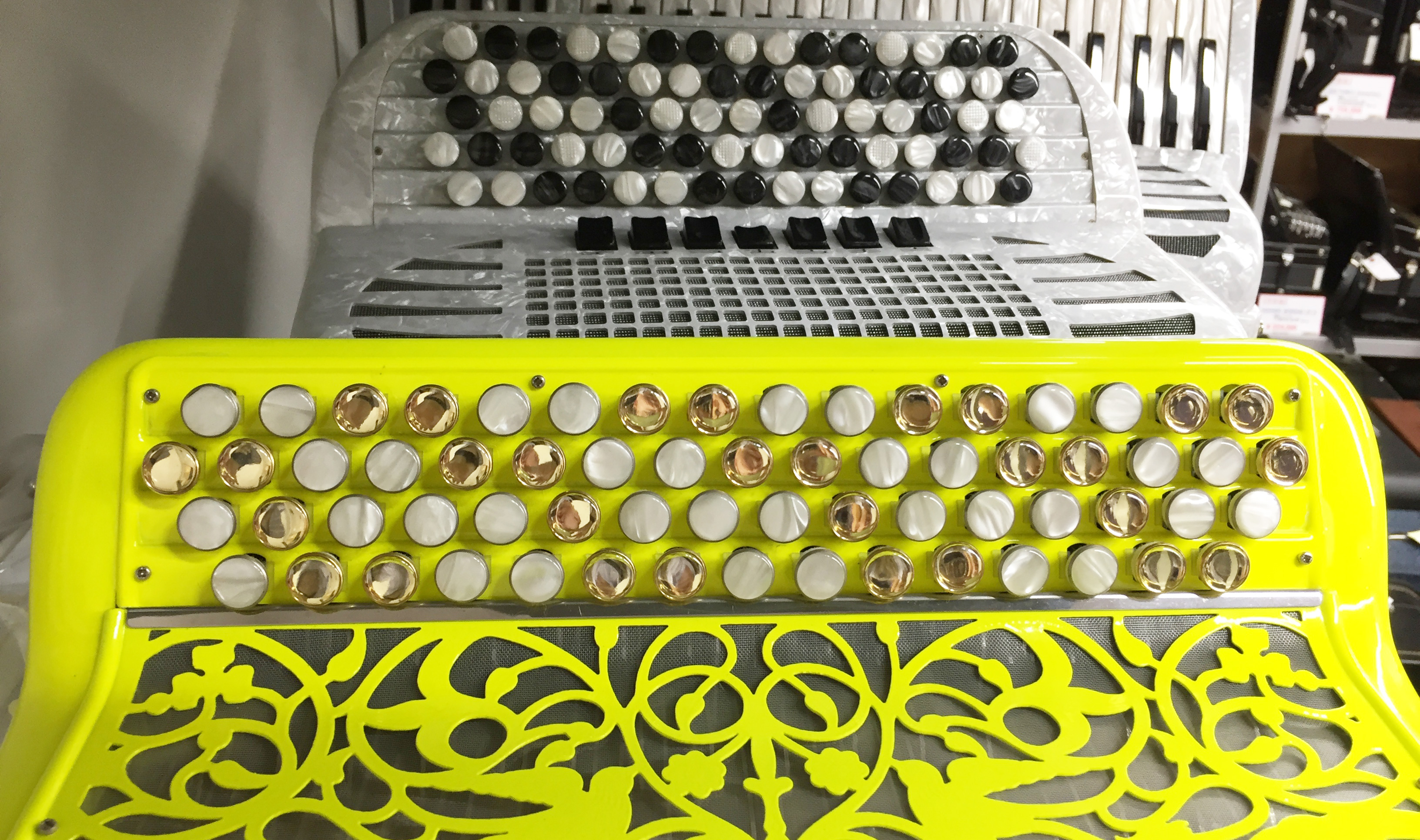 Two treble keyboards of the chromatic button accordions．I took this photo at TANIGUCHI GAKKI or TANIGUCHI's Musical Instrument Shop in Tokyo on 15th October 2018.